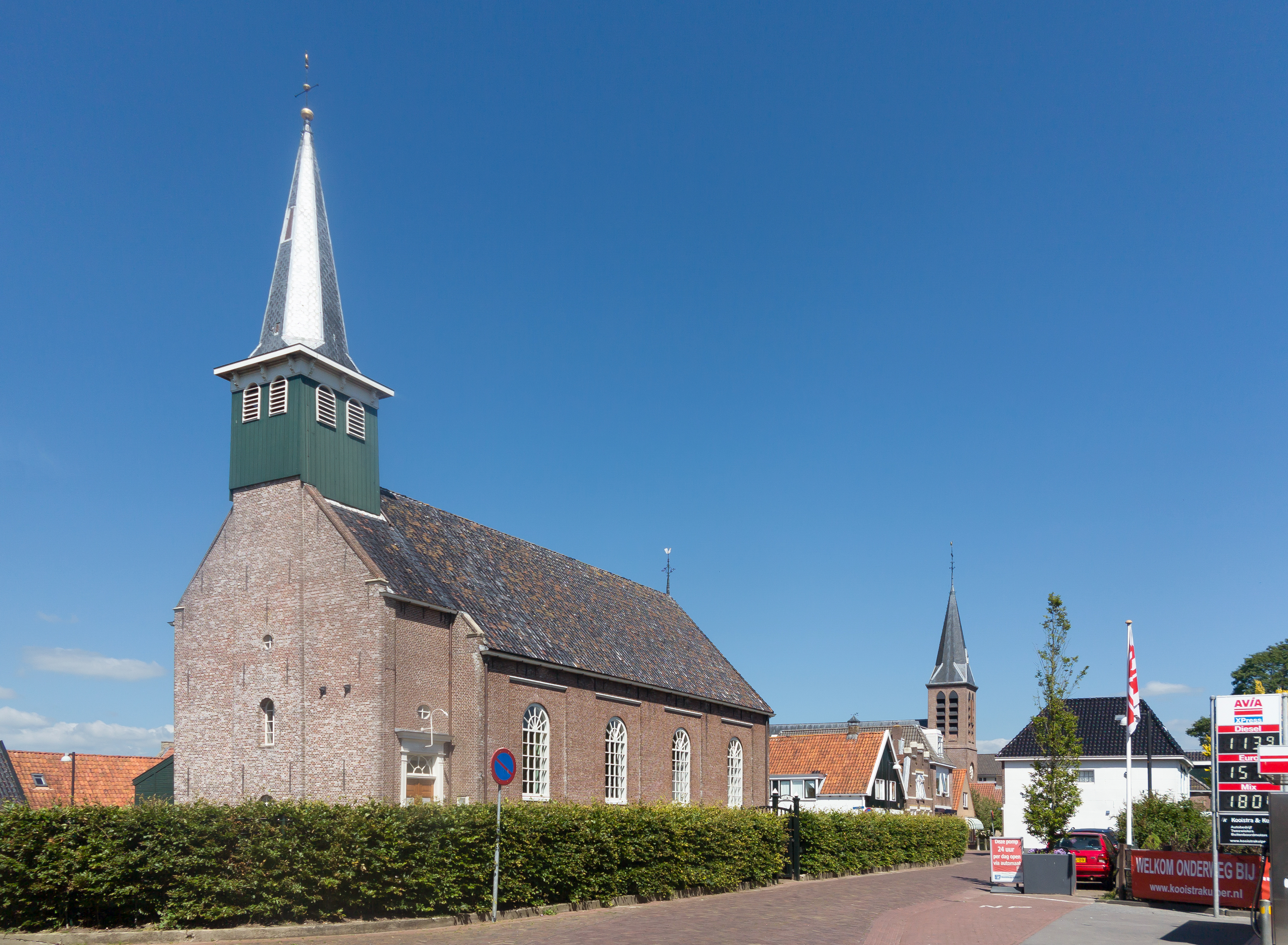 Heeg, church (de Haghakerk)b with other church (de Sint-Jozefkerk) in the background